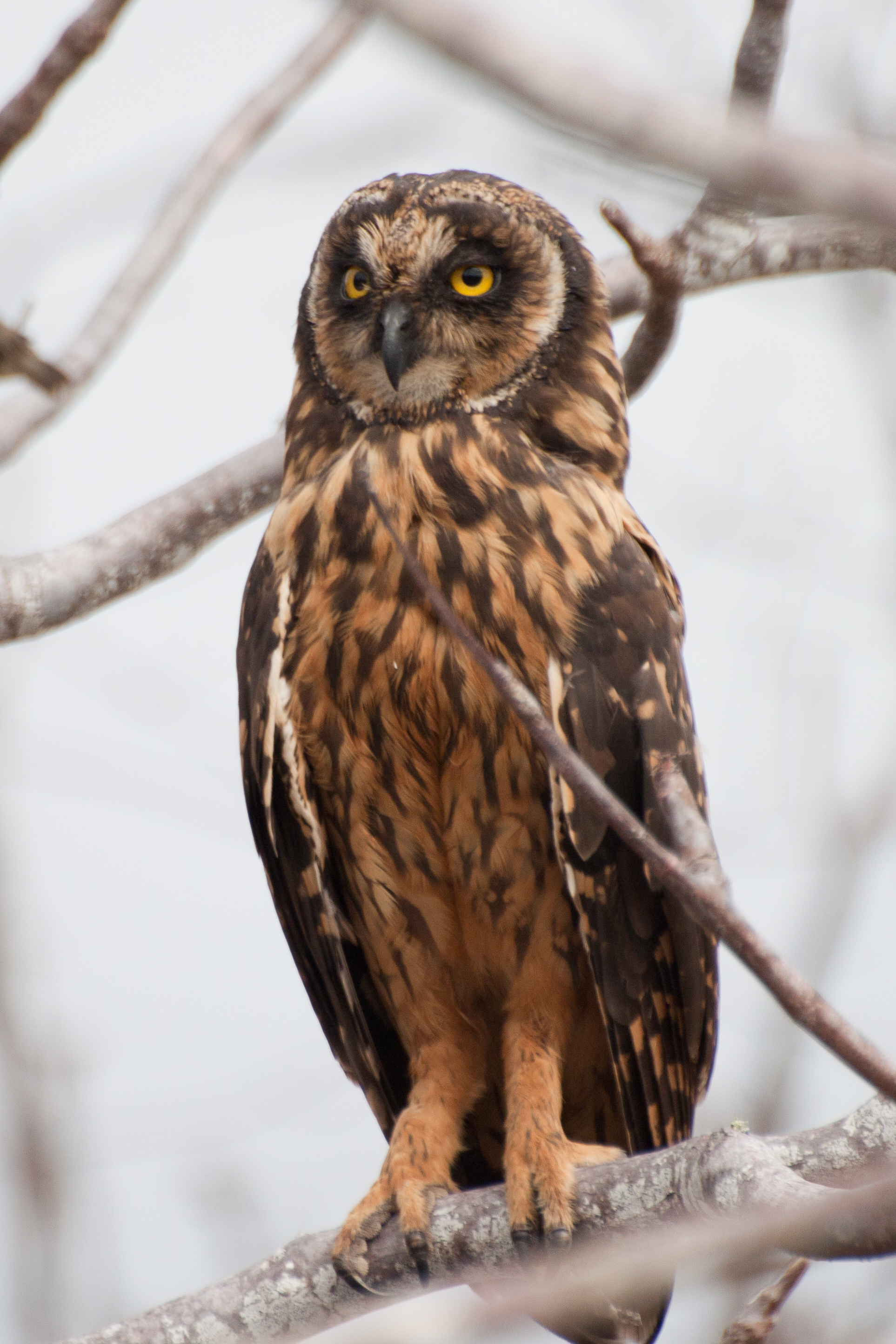 A Short-eared Owl on Genovesa Island, Galapagos Islands, Ecuador.